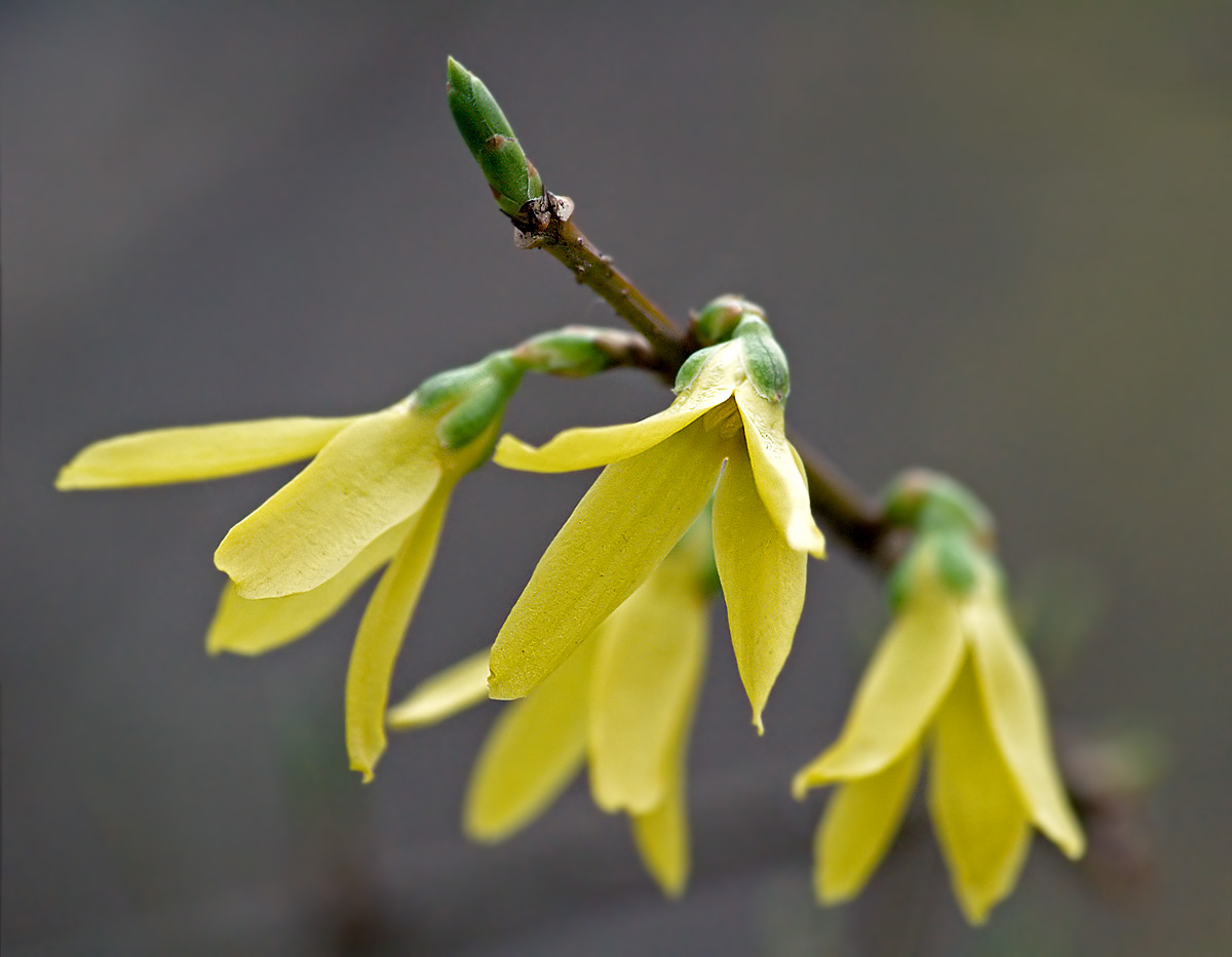 This image shows a forsythia close-up.